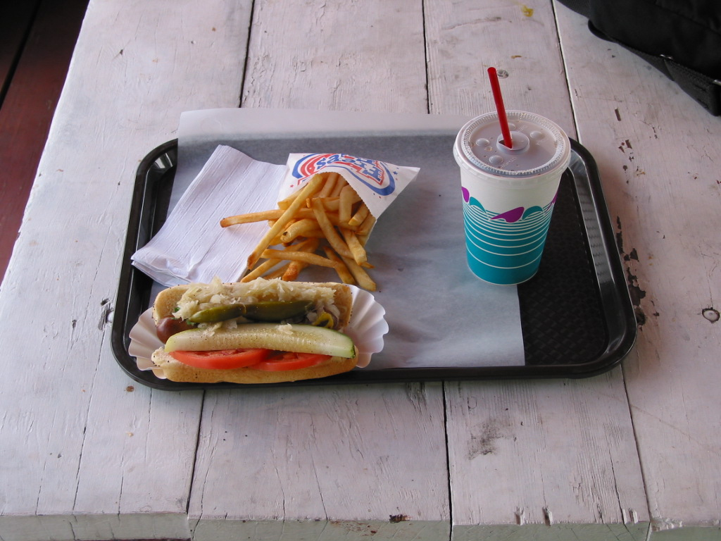 A Chicago-style hot dog meal as served by the Bunny Hutch at 6438 North Lincoln Avenue in Lincolnwood, Illinois, USA.